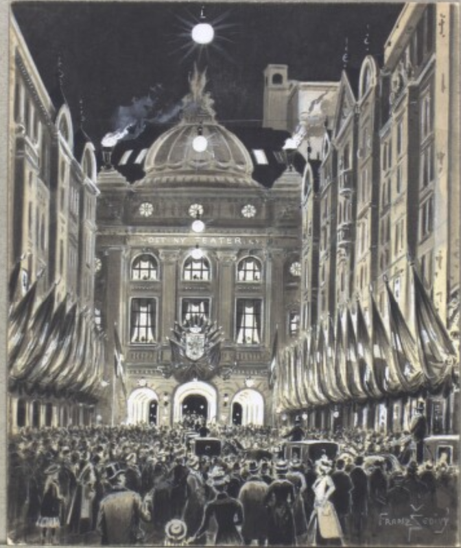 Det Ny Teater indvies 10/9, 1908